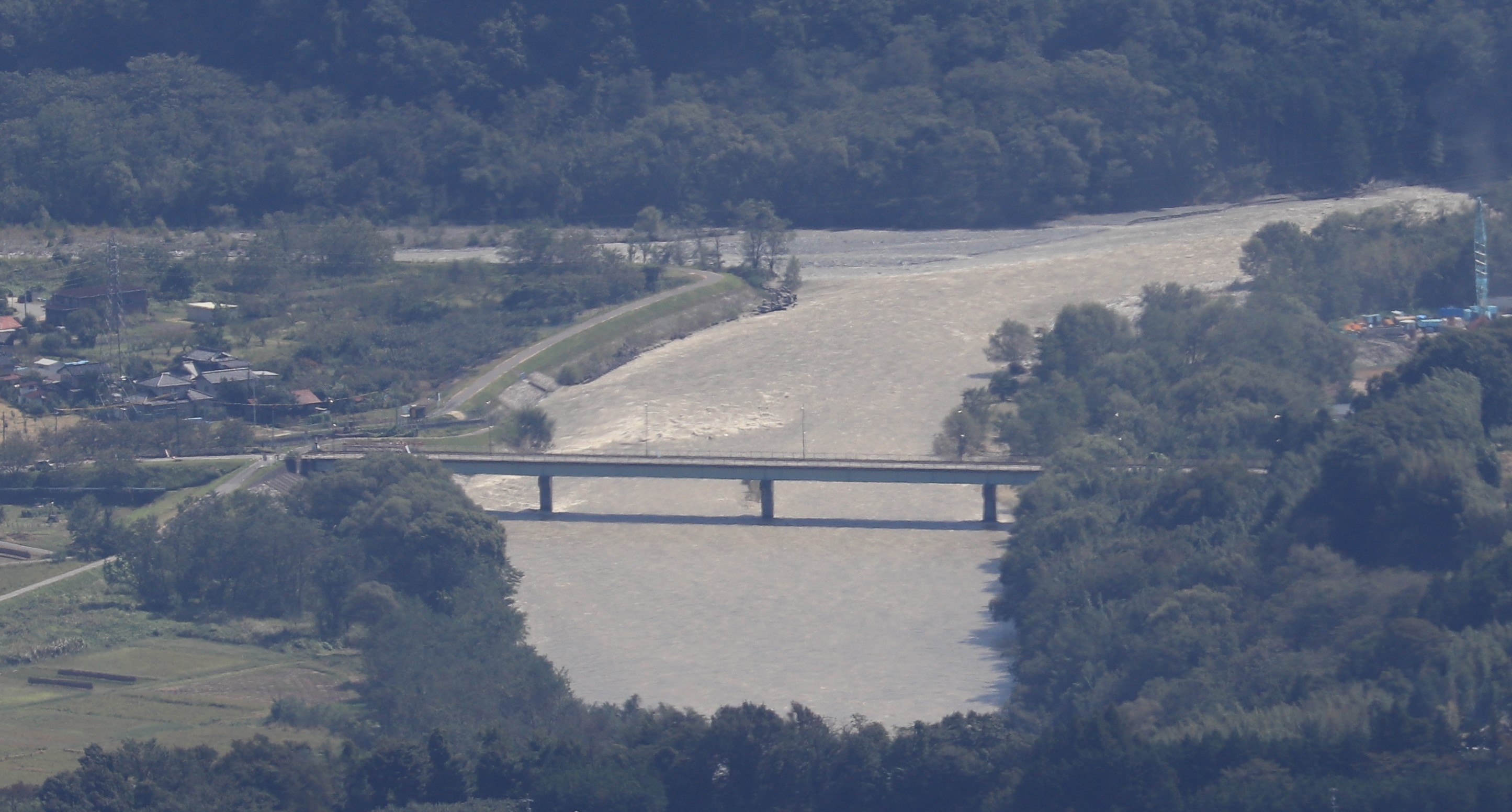 Tenryu Bridge (Nagano Prefectural Road Route 59) over Tenryu River and Koshibu River seen from Mount Eboshi (Kiso Mountains) in Nakagawa and Matsukawa, Nagano Prefecture, Japan.